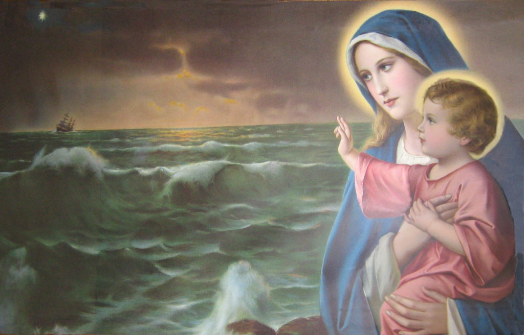 Photograph of a 19th century painting of Our Lady Star of the Sea.